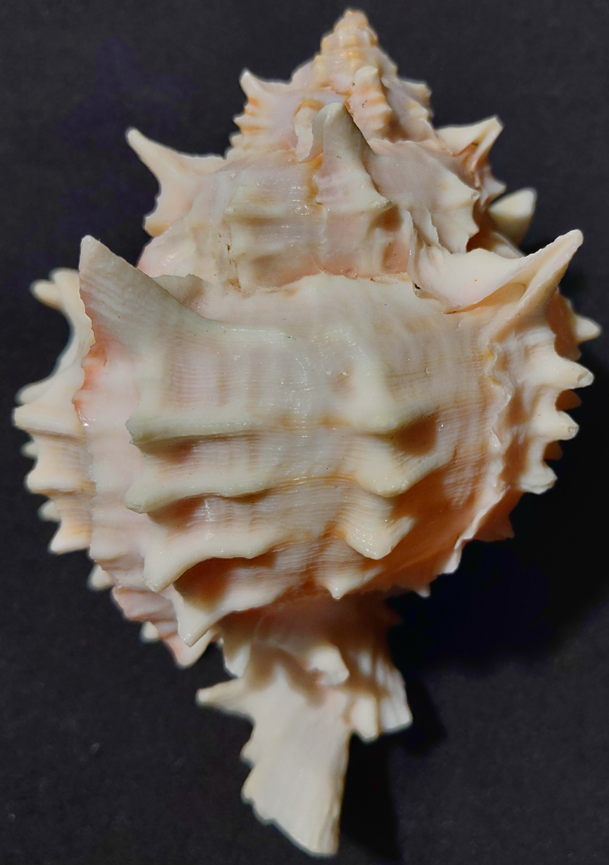 Hexaplex Erythrostomus Back